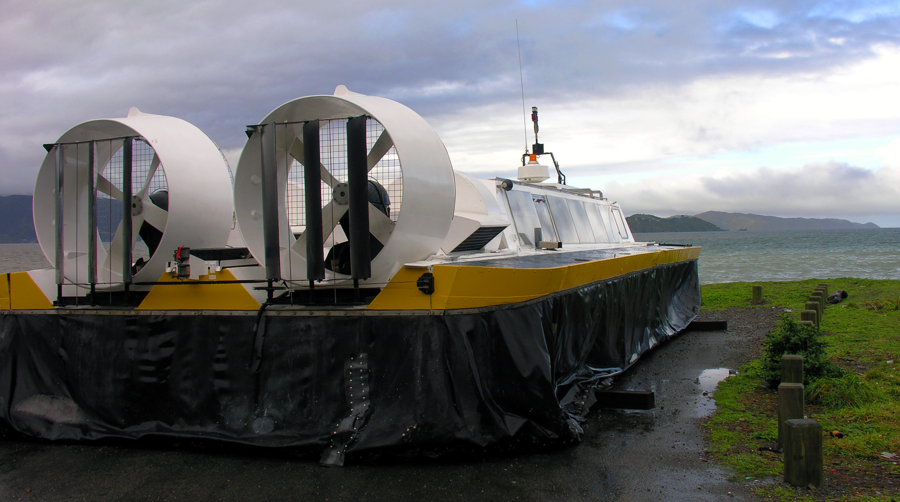 Hovercraft parked on foreshore, Petone, Wellington, New Zealand.